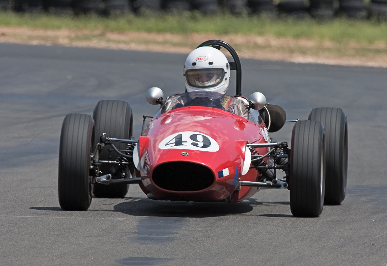 The Elfin Formula Junior of Doug Anderson competing at Wakefield Park on 8 February 2009. This is chassis no 625, first raced by Frank Matich at Warwick Farm Raceway on 16 October 1962. Matich won the 1962 Australian Formula Junior Championship in a sister car, chassis no 627.